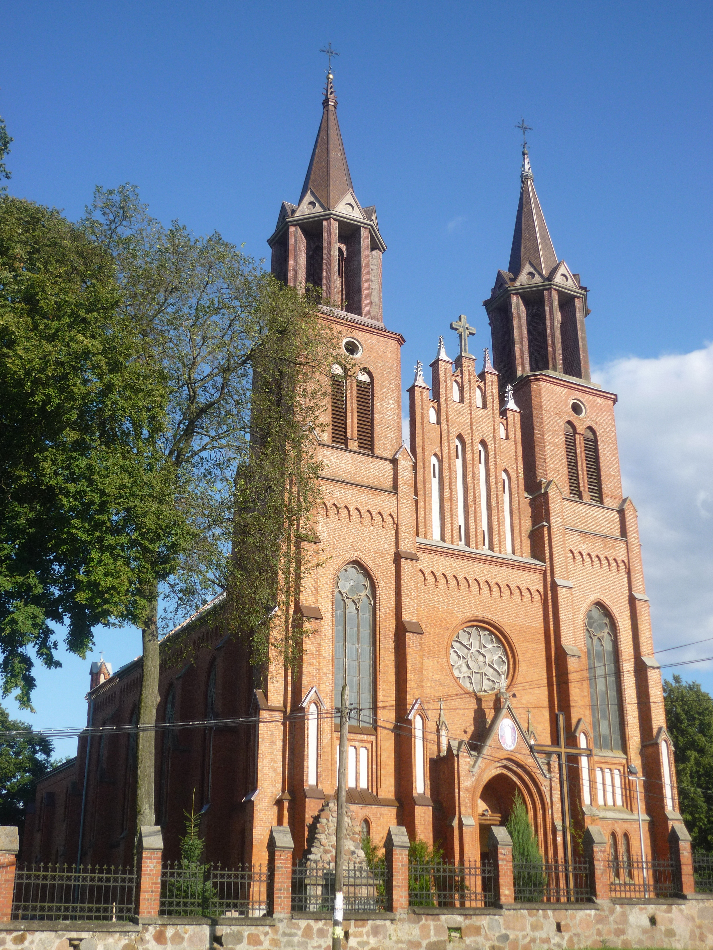 Parish church of St. Michael Archangel in Płonka Kościelna, Poland